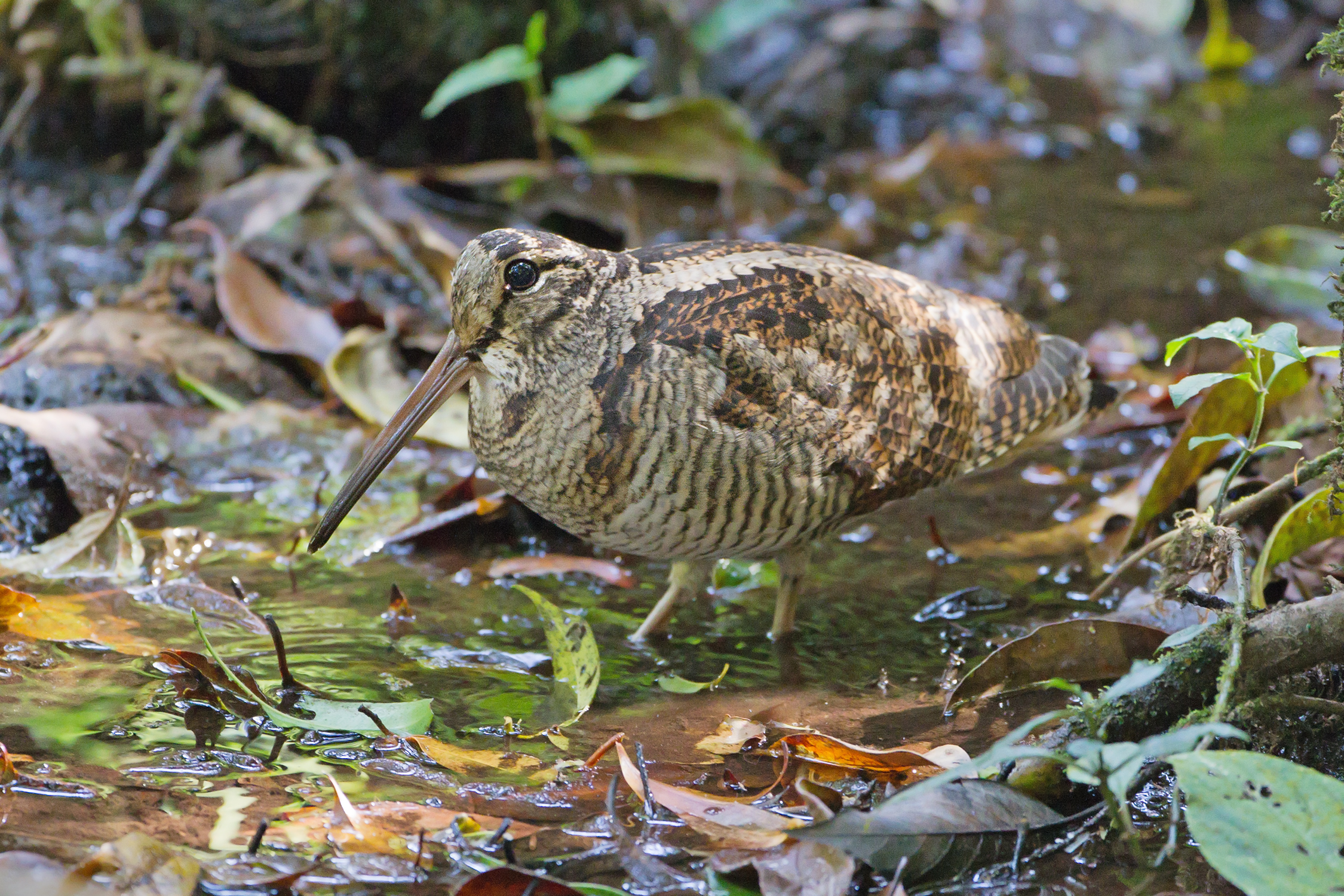 Eurasian Woodcock (Scolopax rusticola) , Doi Inthanon National Park, Chiang Mai, Thailand